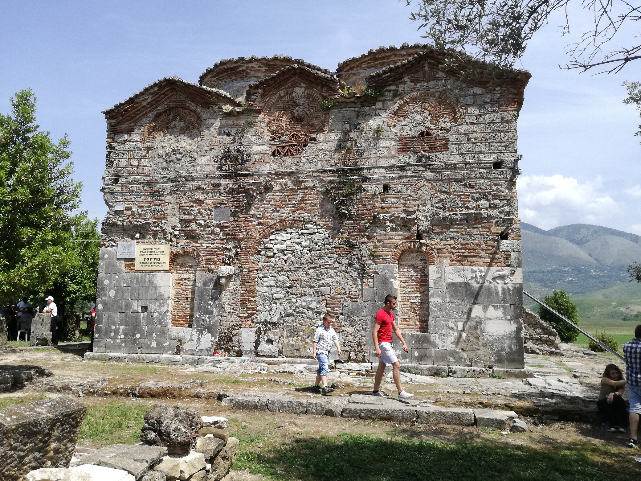 Built on much older temple walls dating from circa 297 BC